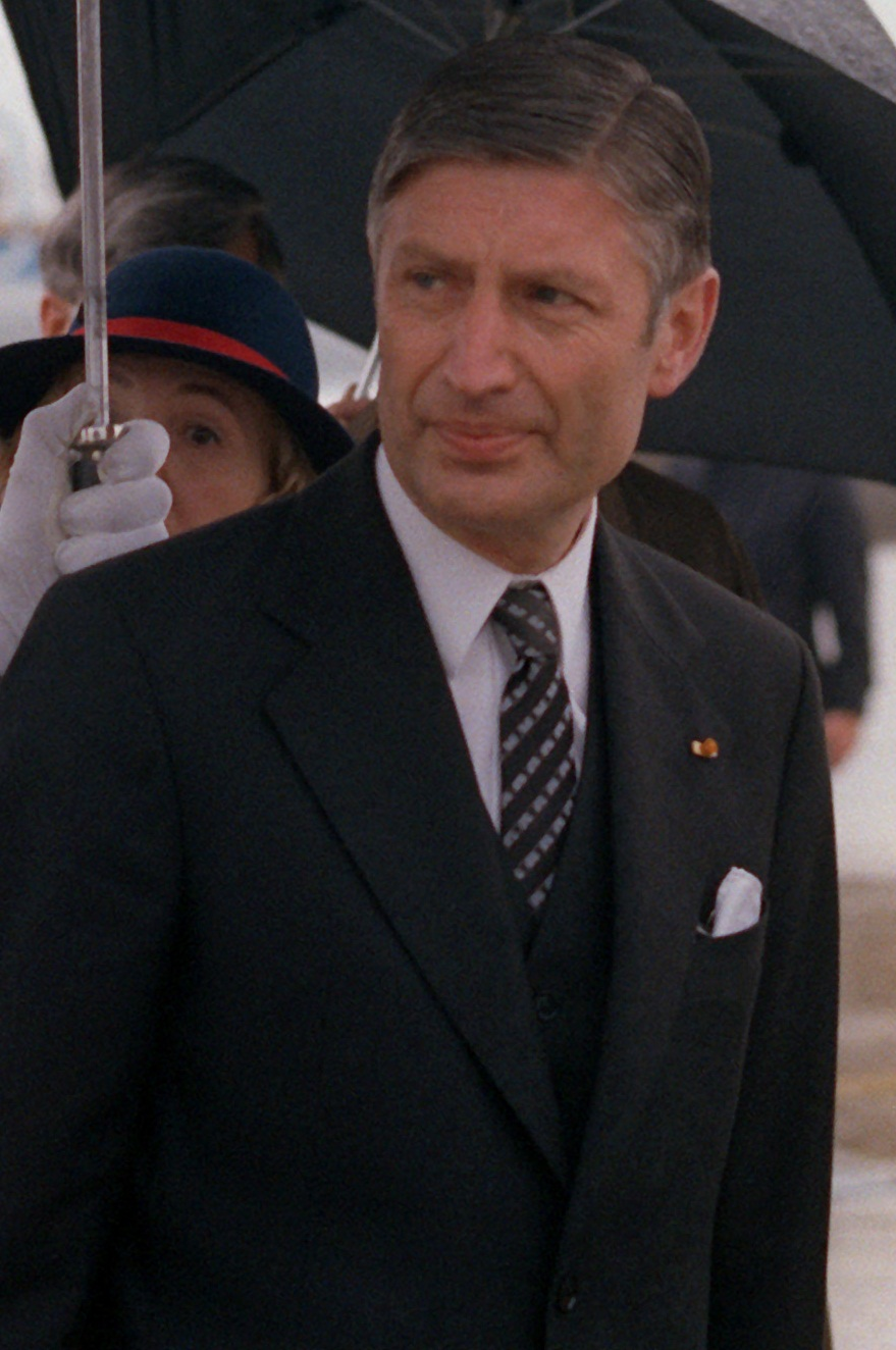 Prime Minister of the Netherlands Dries van Agt arrives for a visit to Washington D.C.